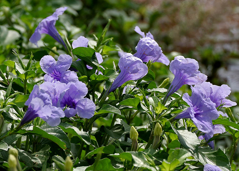 POTPOTI, Wayside Tuberrose or bluebell Ruellia tuberosa in Hyderabad, India.